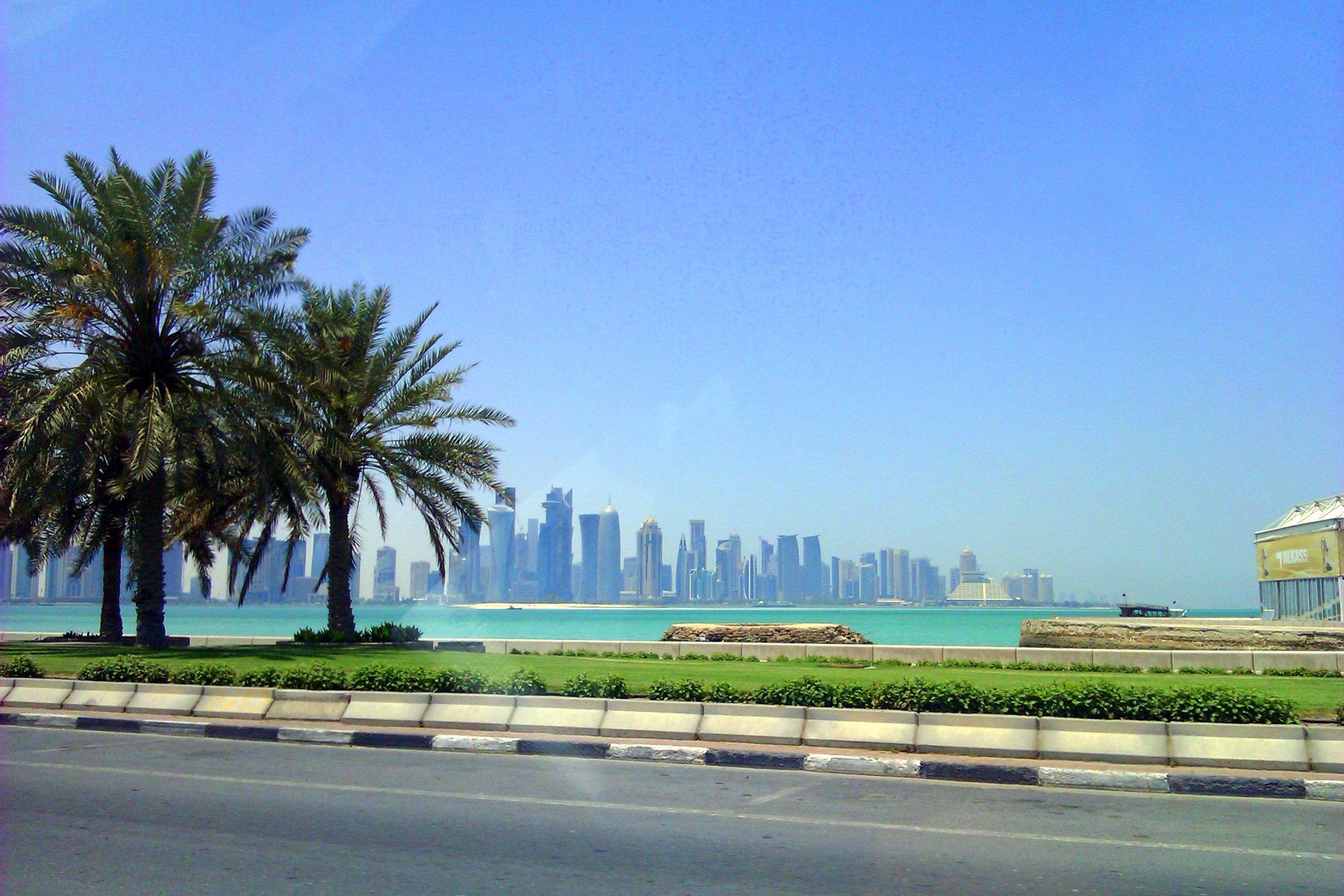 Doha corniche